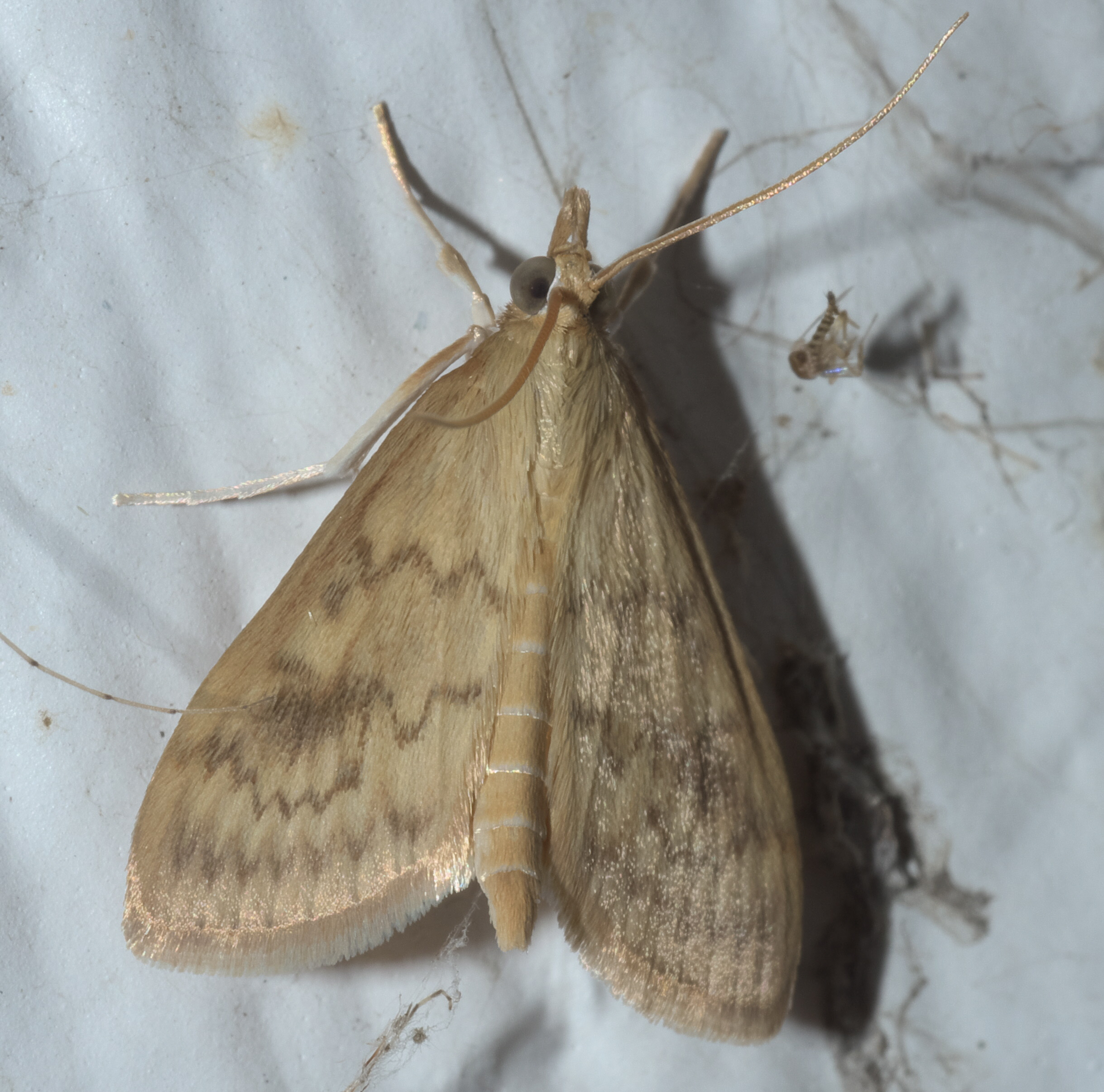 Ostrinia penitalis, American lotus borer, ID Confidence: 90